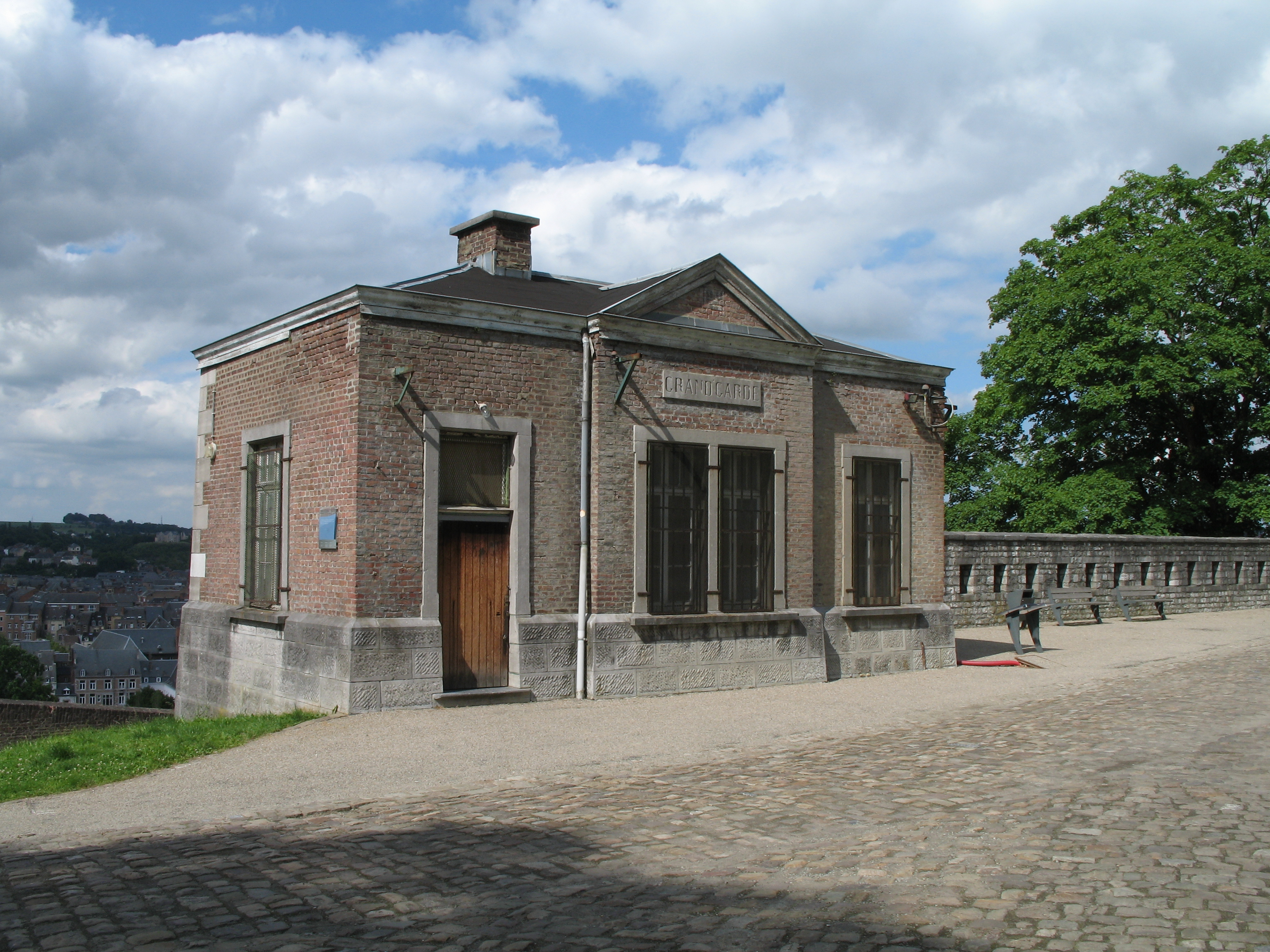 Namur (Belgium): the main watch-post of the Citadel